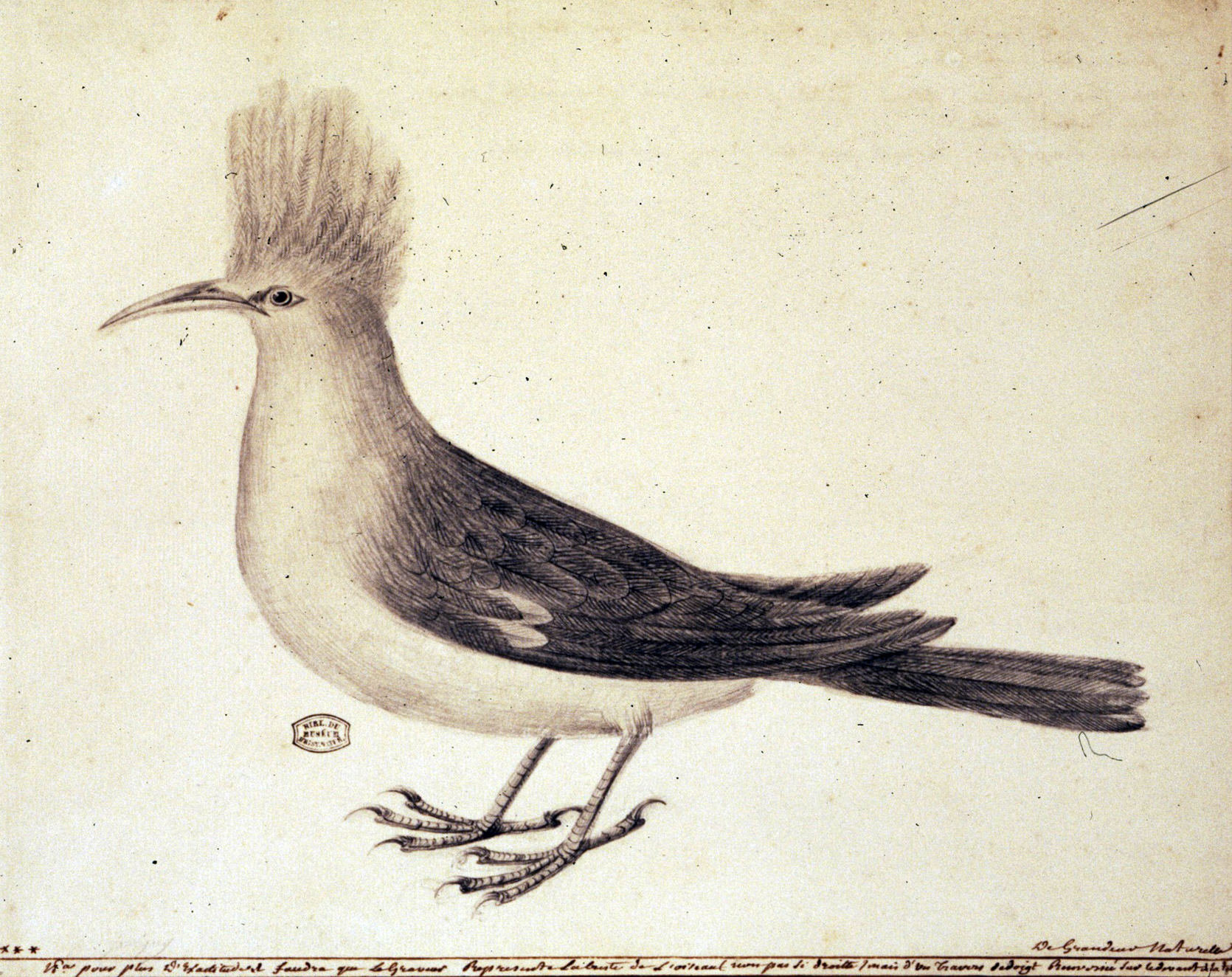 Only definite life drawing of the hoopoe starling.